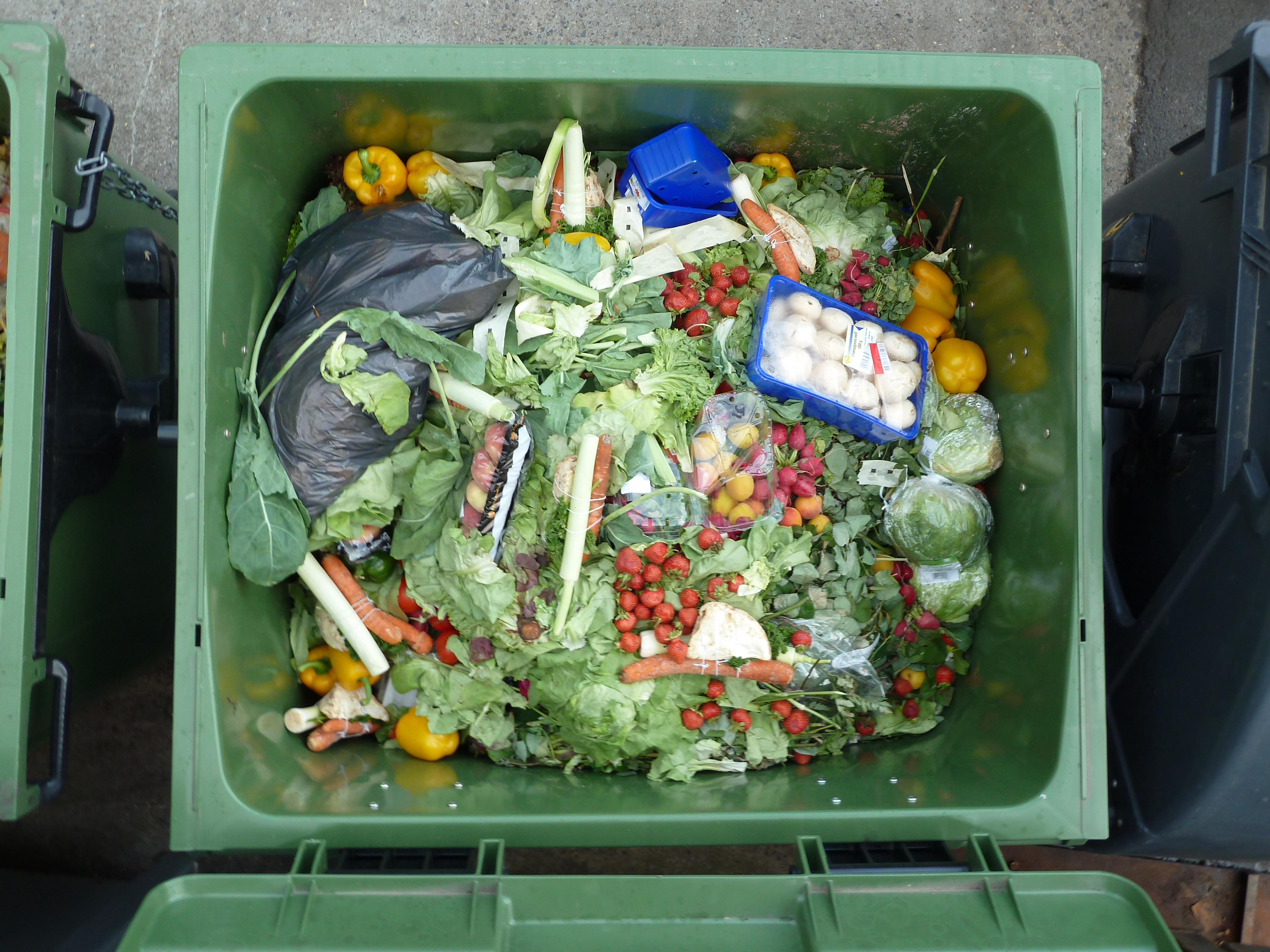 Wasted vegetables and fruits of a hypermarket from one or two days. Some of the more impressing stuff in there was found underneath the surface - like about one carton of bananas.